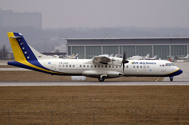 B&H Airlines ATR 72 T9-AAD